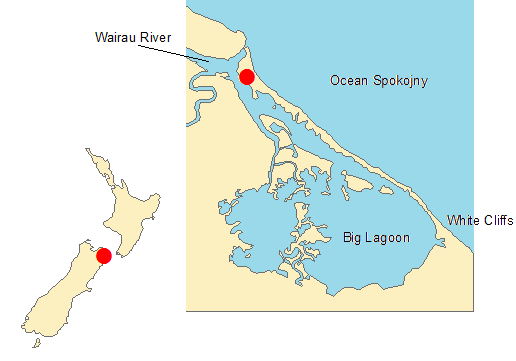 Location of the archaeological site Wairau Bar in New Zealand.